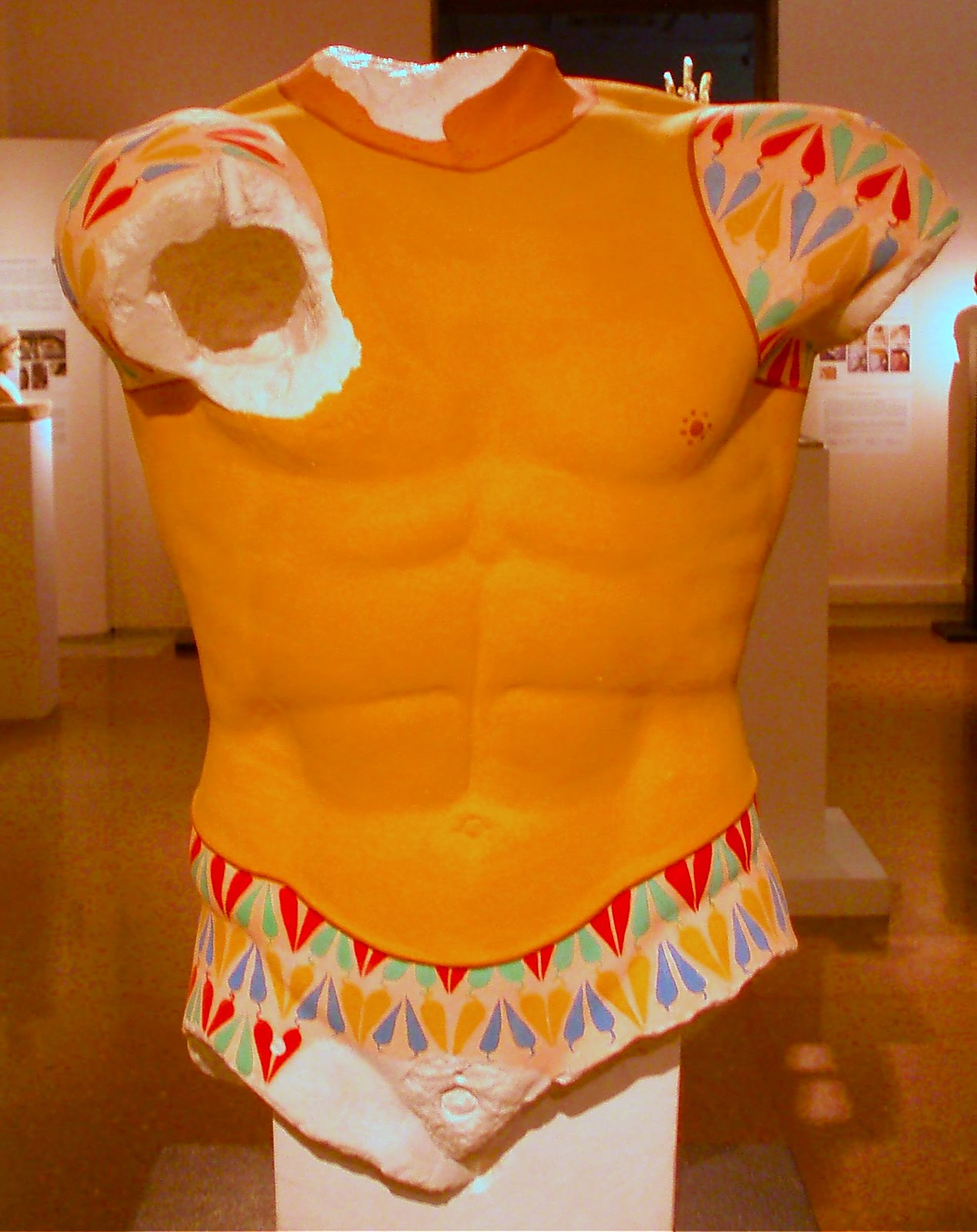 Cuirassed torso of a warrior (an archer ?), from the Acropolis, ca. 470 BC.